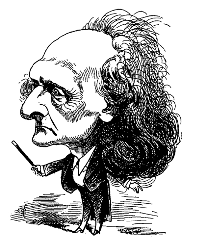 French composer Henry Charles Litolff (1818-1891) by Georges Lafosse (1844-1880)